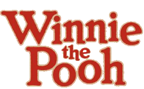 Winnie the Pooh (2011)